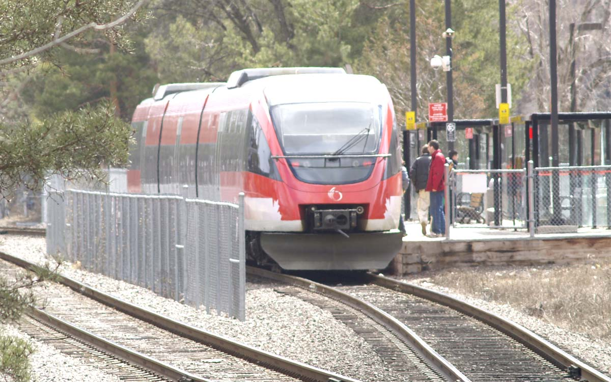 Southbound O-Train at the Carleton station in Ottawa, Ontario.